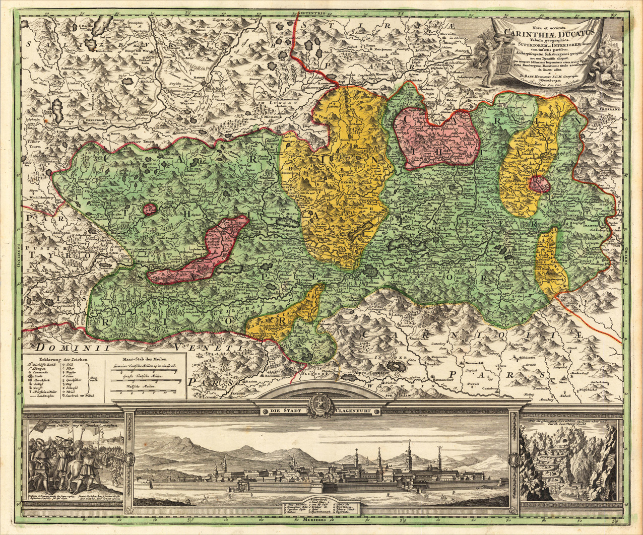 Carinthia was part of Inner Austria, one of the Habsburg's hereditary lands. For more than 400 years, the prince-bishoprics of Salzburg and Bamberg owned vast territories in Carinthia (pink=Salzburg; yellow=Bamberg), until the Bamberg enclaves were finally acquired by Austria in 1759. Map published by Johann Baptist Homann, circa 1725.